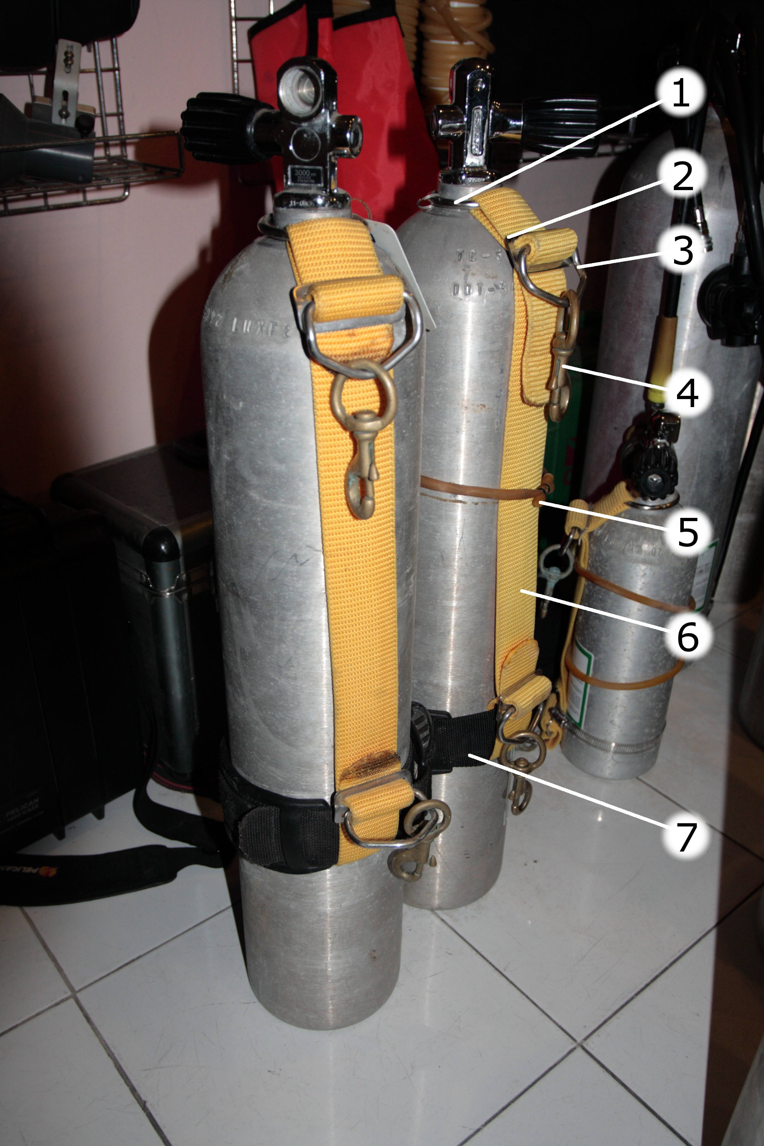 Example of stage tanks (with markers)